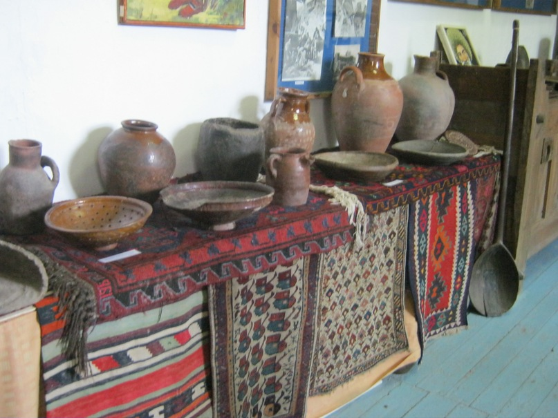 Clay pots exhibits in the Local history, culture and geography Museum in Akhty. Dagestsn.